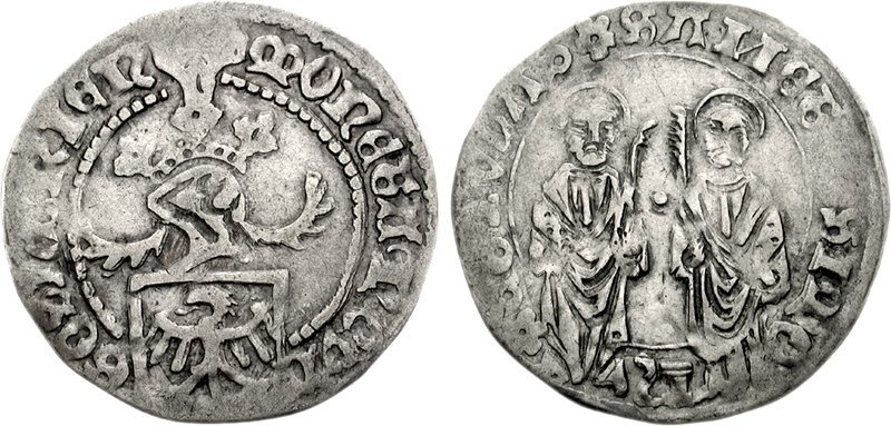 GERMANY, Goslar. Anonymous. After 1477. AR Bauerngroschen (2.61 g, 10h). mOnЄτΛ nOVΛ GOSLΛRIЄn, crowned and crested helmet set on shield adorned with eagle / (rosette) SΛИCτ[VS] SImOn (rosette) Єτ IVDΛS, nimbate figures of Sts. Simon and Jude standing facing, holding palm fronds. BBK 11 (a1/B1). VF, toned.